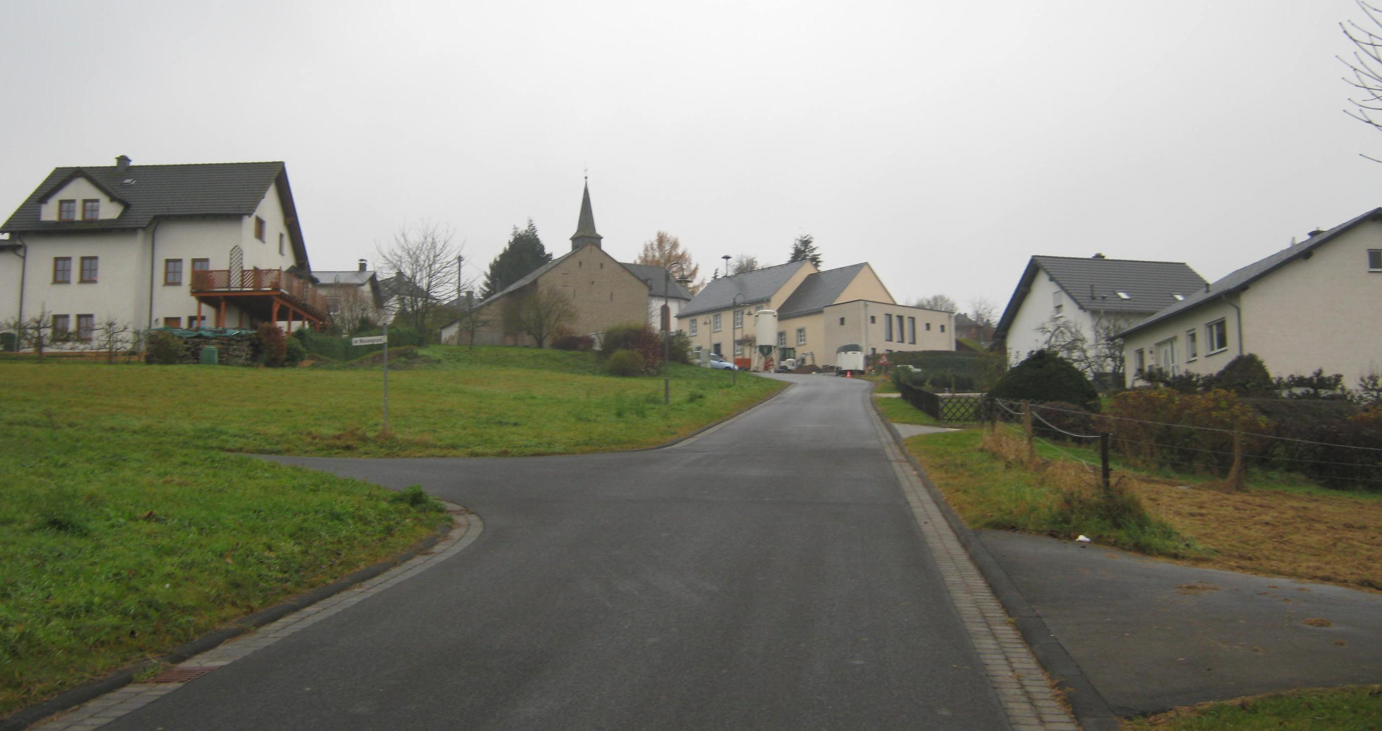 Naurath in the Hunsrück landscape, Germany.